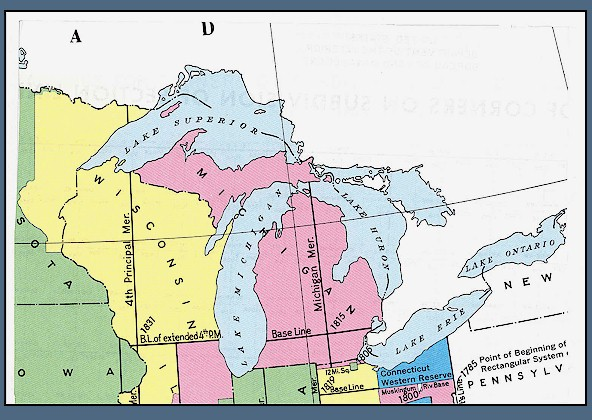 U.S. Bureau of Land Management map showing principal meridians and base lines used for cadastral surveys.